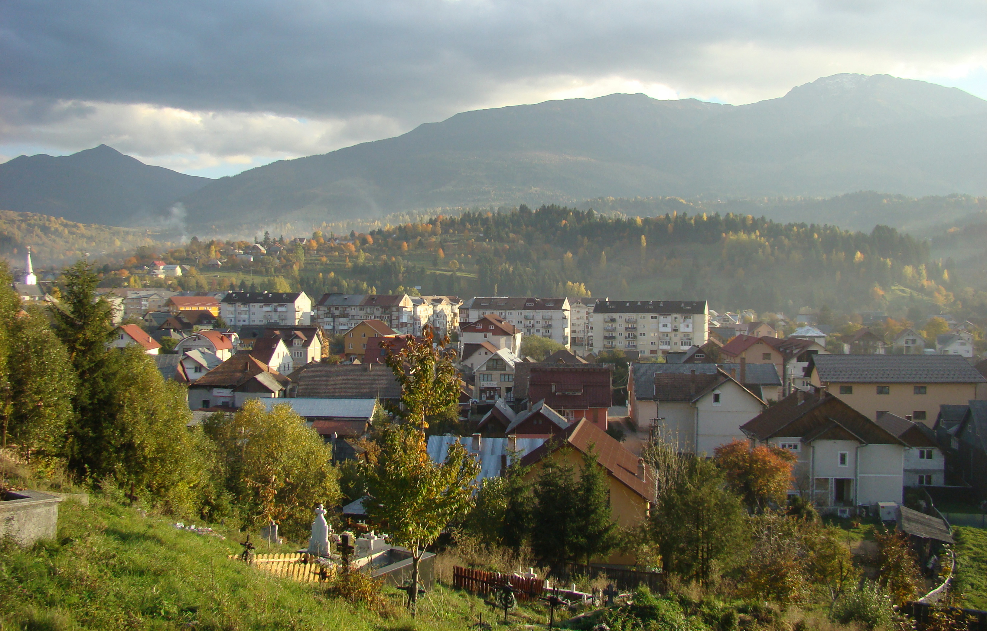 Borșa, Maramureș county, Romania